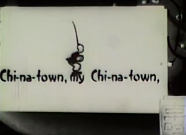 A Chinese caricature acting as the bouncing ball. This is from Chinatown, My Chinatown, a 1929 film.